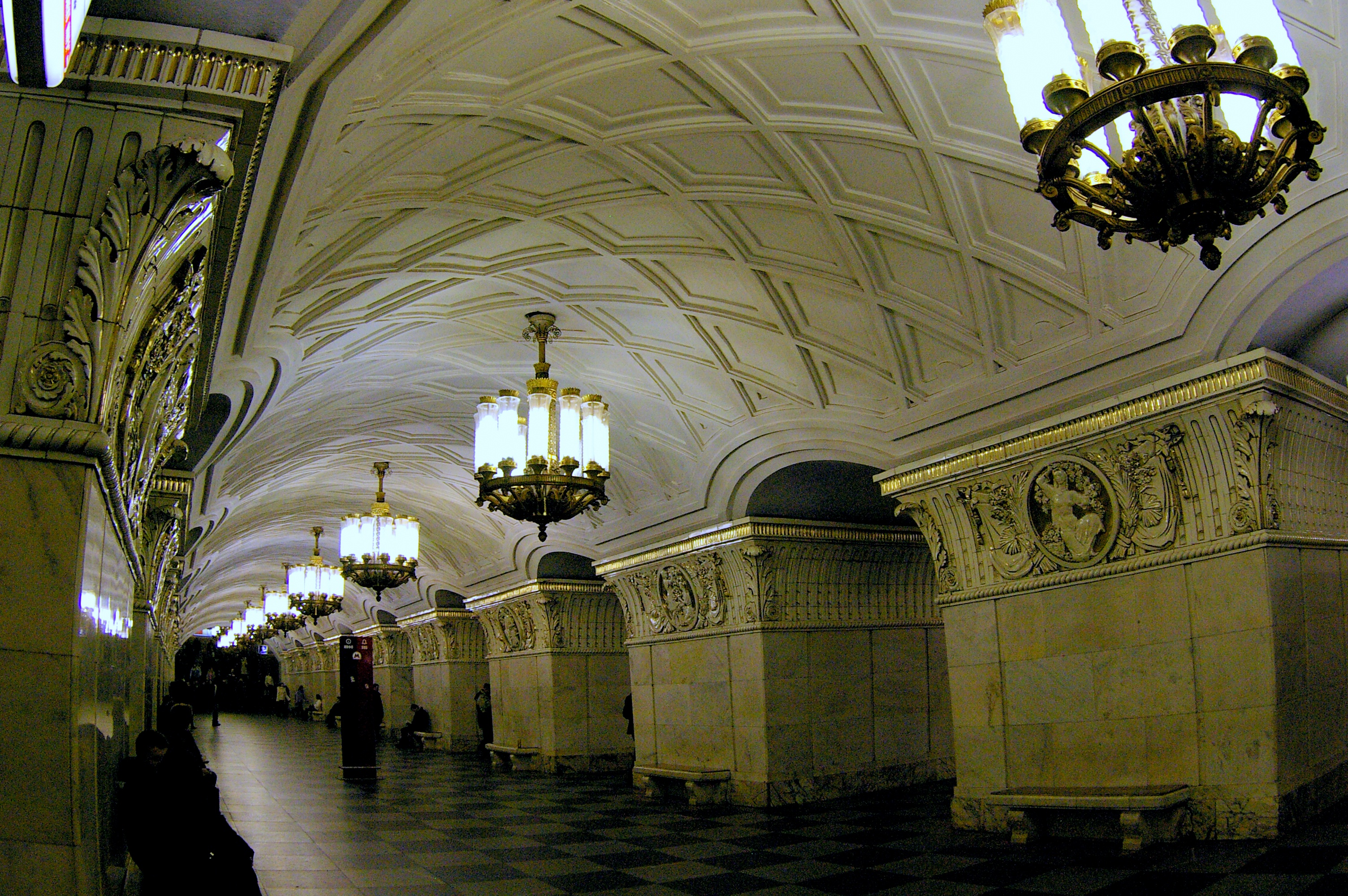 My first photo with my new Zenitar lens. Also featured here: notes.co.il/salant/39496.asp See where this picture was taken. [?]